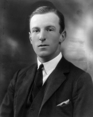 This image is of Henry Hugh Arthur Fitzroy Somerset, 10th Duke of Beaufort